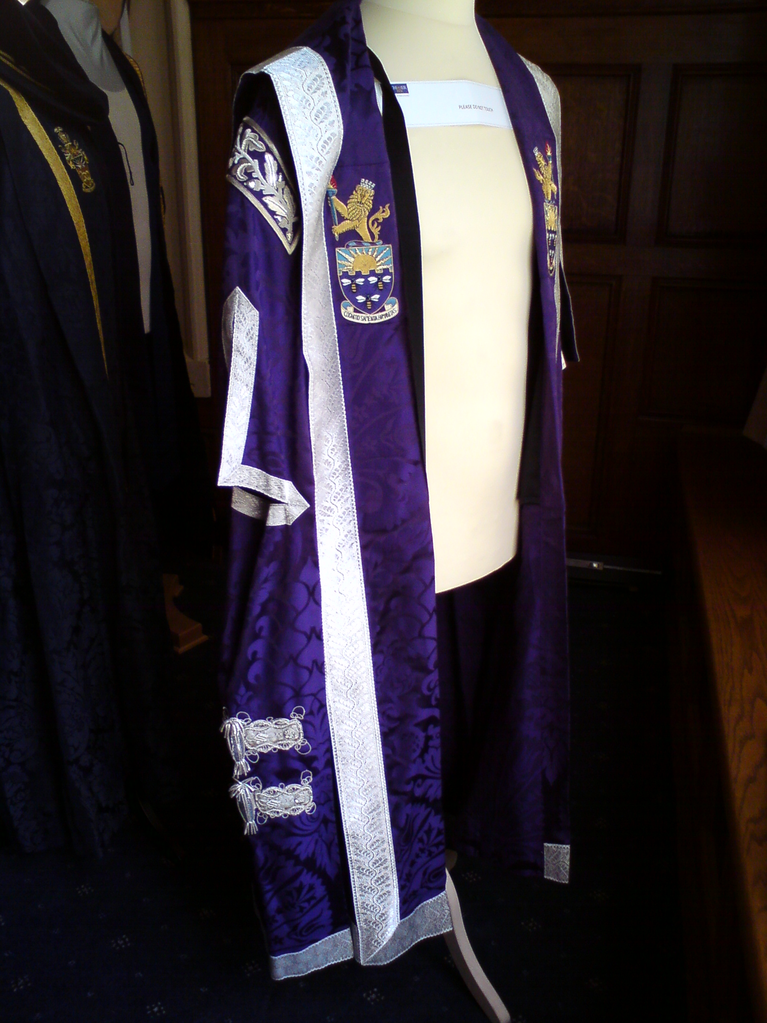 Photo of the Manchester University (2004) Chancellor's robe.